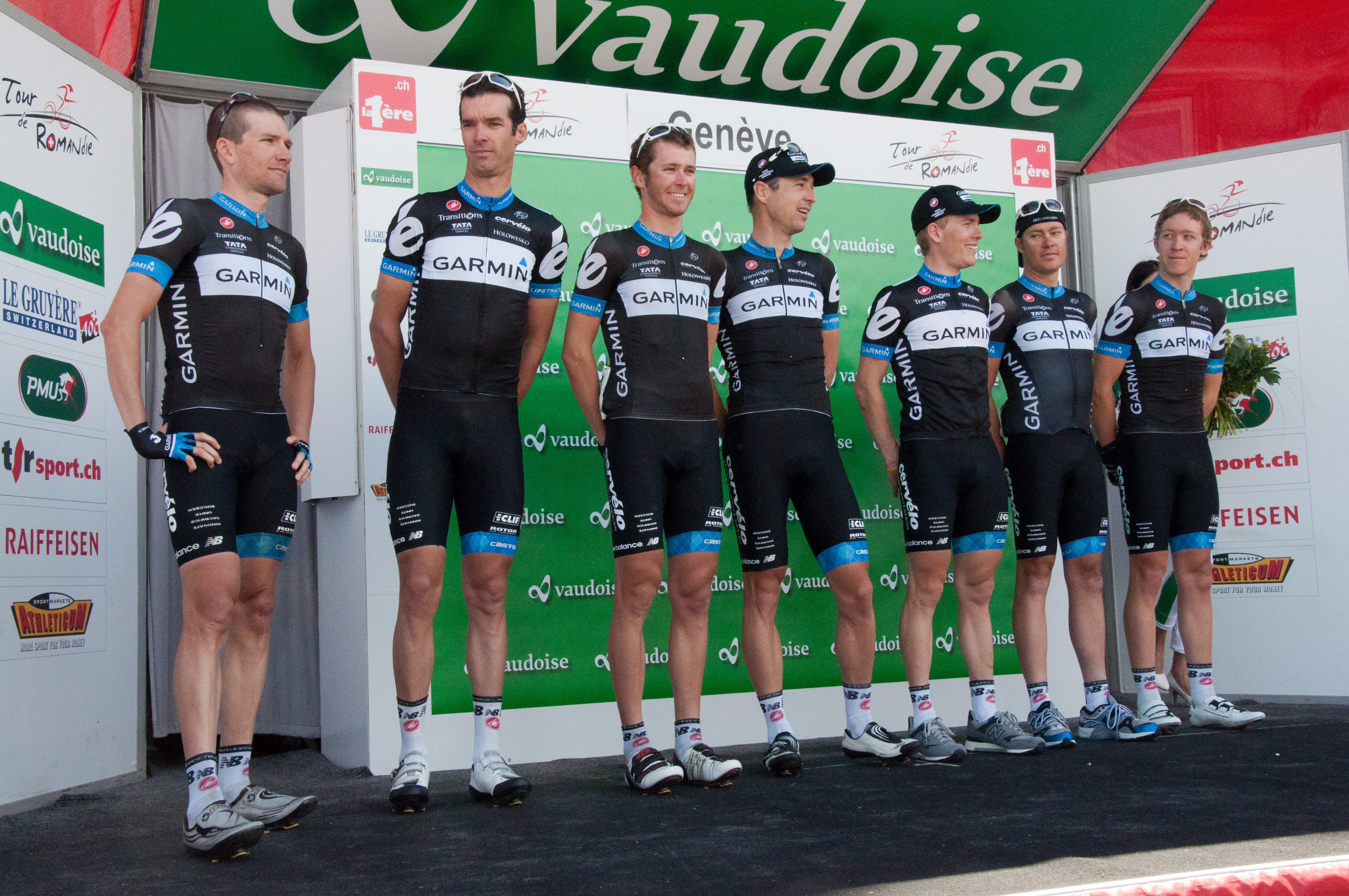 2011 Tour de Romandie, Winner of the Team Classifcation Team Garmin-Cervélo.